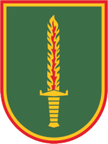 Lithuanian Military